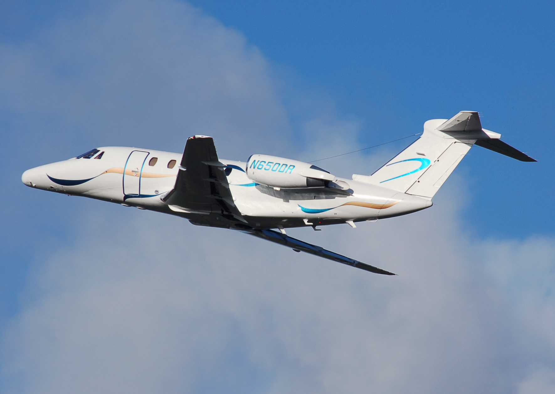 Cessna Citation III (US registration N650DR) takes off from Bristol International Airport, Bristol, England.